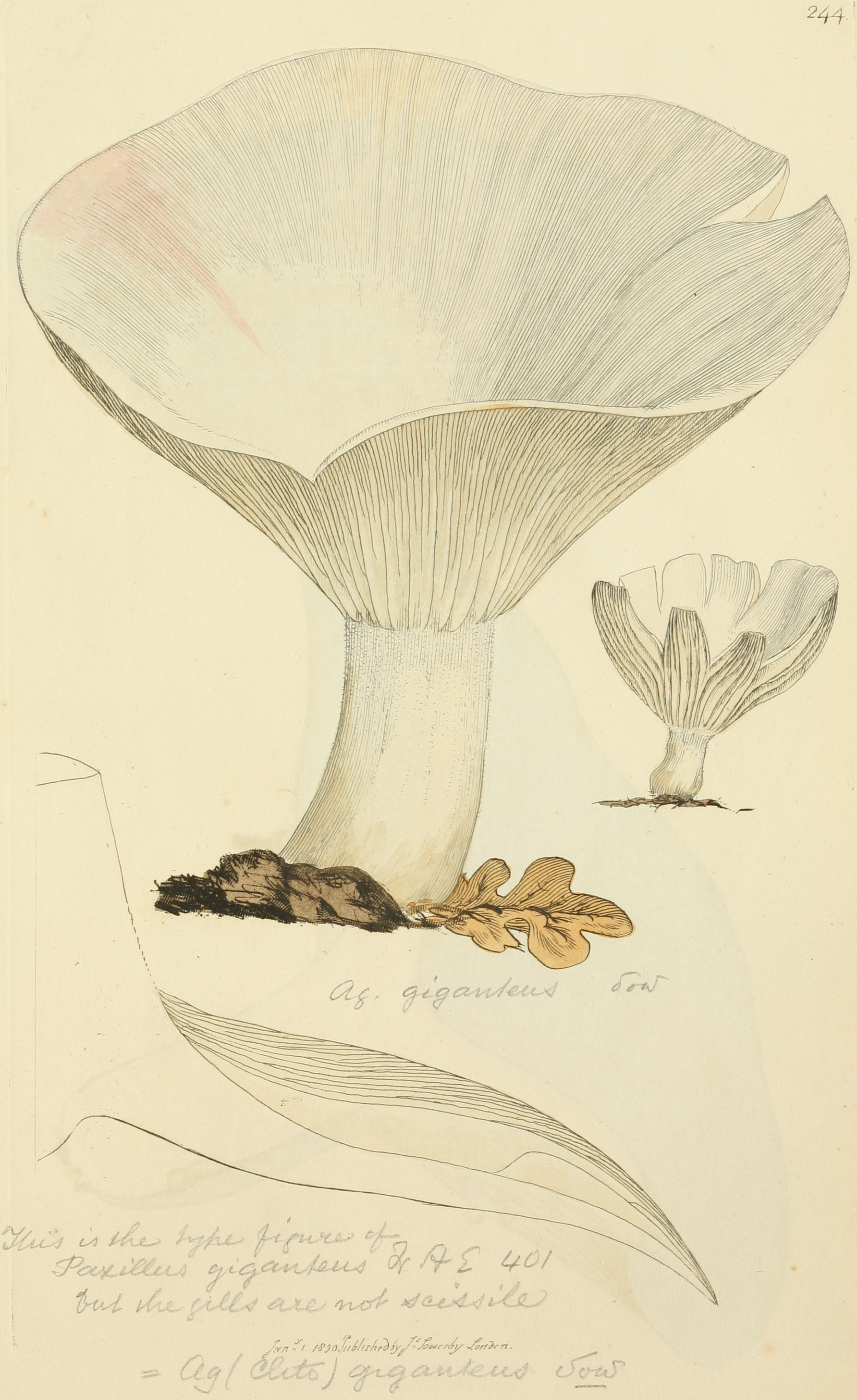 This is a plate from James Sowerby's Coloured Figures of English Fungi or Mushrooms.